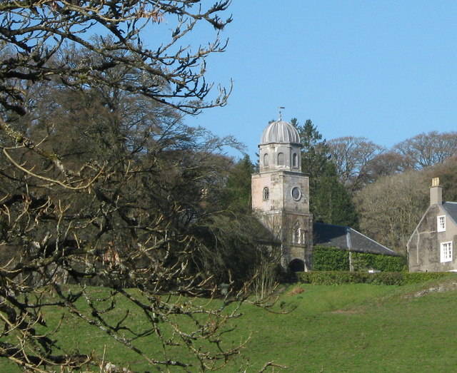 Observatory on the Craigengillan estate This observatory stands next to Craigengillan House. It was built towards the end of the 19th century.